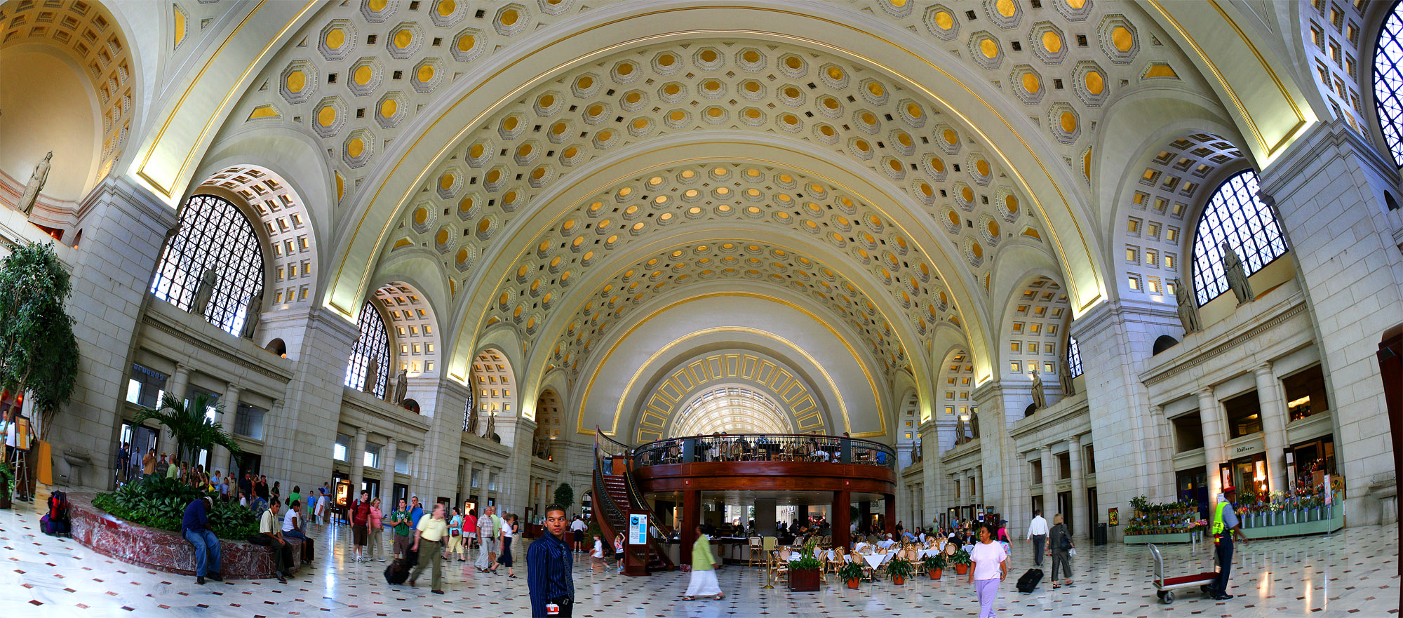 Wide-angle interior shot of Union Station in Washington, D.C.. Taken July 17th, 2007, assembled from 20 individual shots stitched together into one pano image. Author: Derek Heidelberg